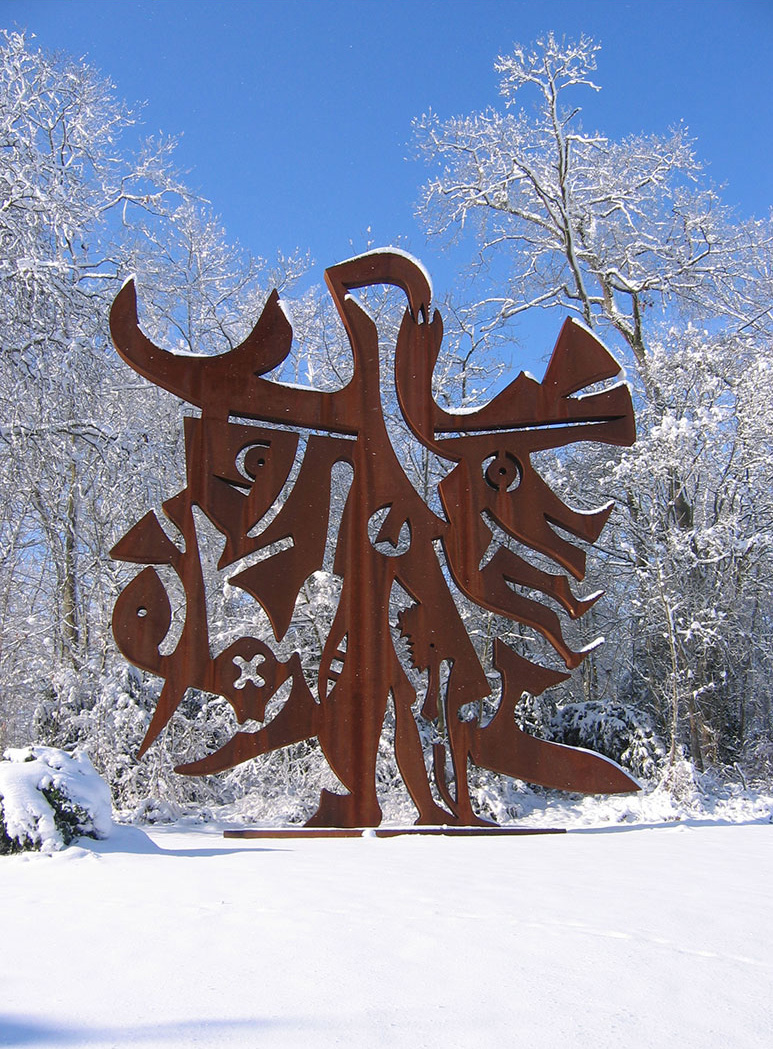 Der Schmied I, Erich Engelbrecht, Sculpture Park Engelbrecht, Château des Fougis, Thionne, France © Sarah Engelbrecht